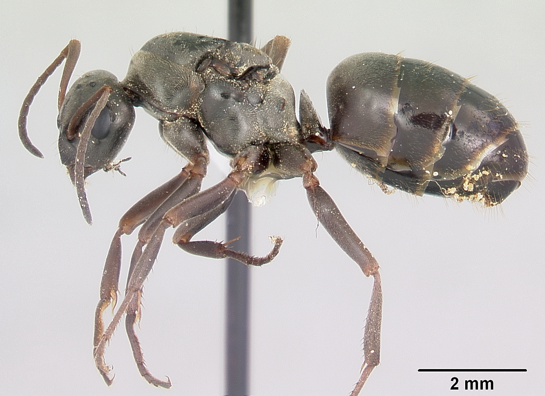 Profile view of ant Formica glacialis specimen casent0104852.